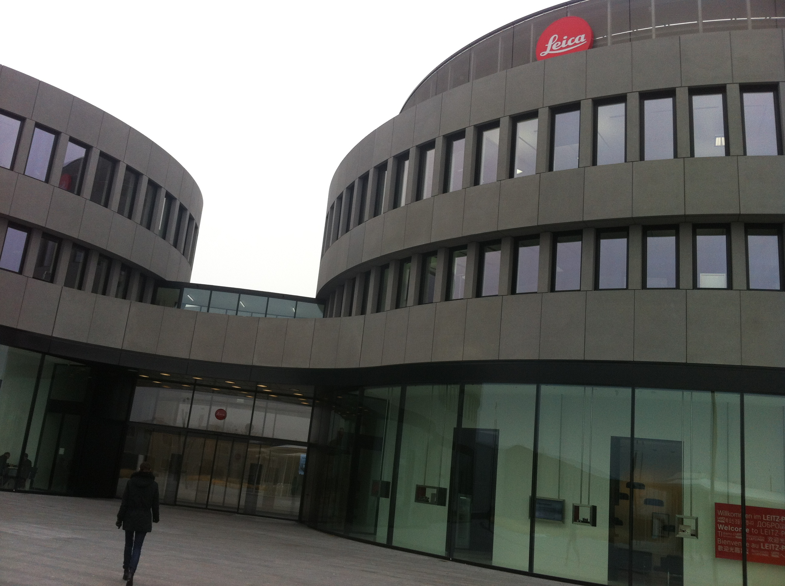 Headquarter of Leica Camera in Wetzlar. Architect: Gruber + Kleine-Kraneburg